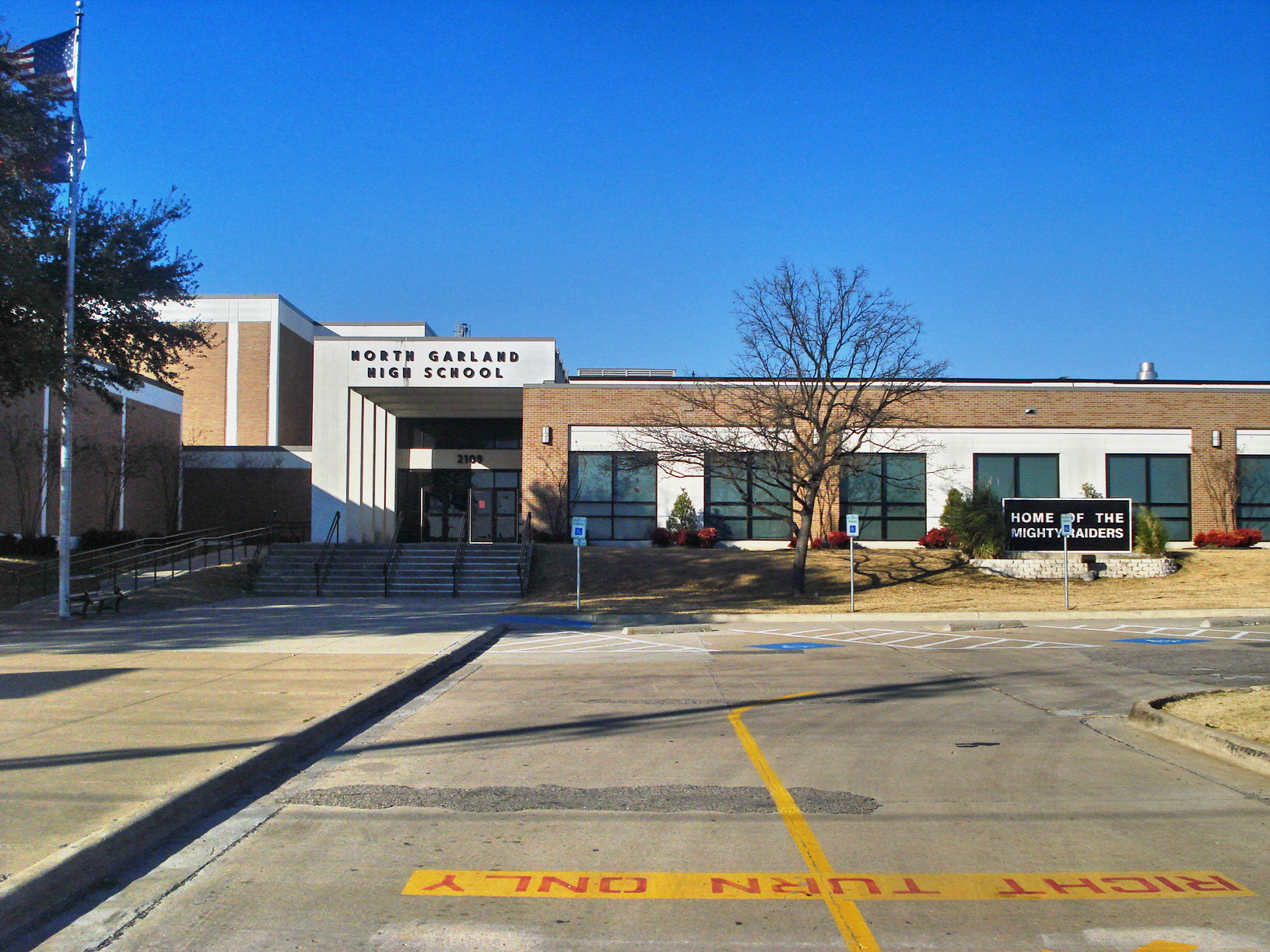 Image showing front of North Garland High School